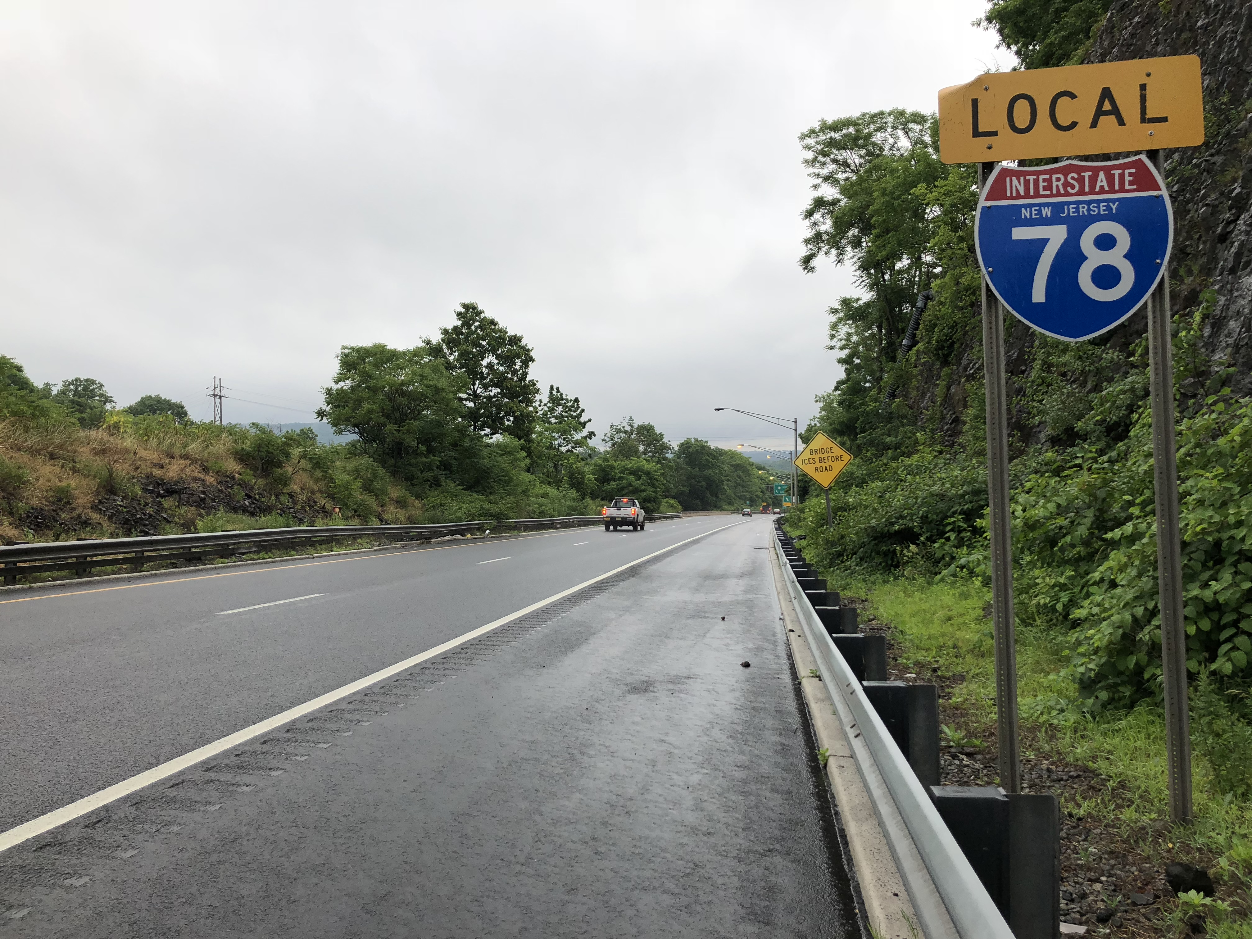 View east along Interstate 78 (Phillipsburg-Newark Expressway) between the Express Lane/Local Lane split and Exit 48 in Springfield Township, Union County, New Jersey